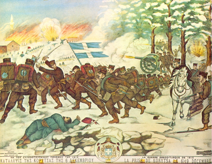 Greek lithograph depicting the storming of Korytsa by the Greek Army on 6/19 December 1912